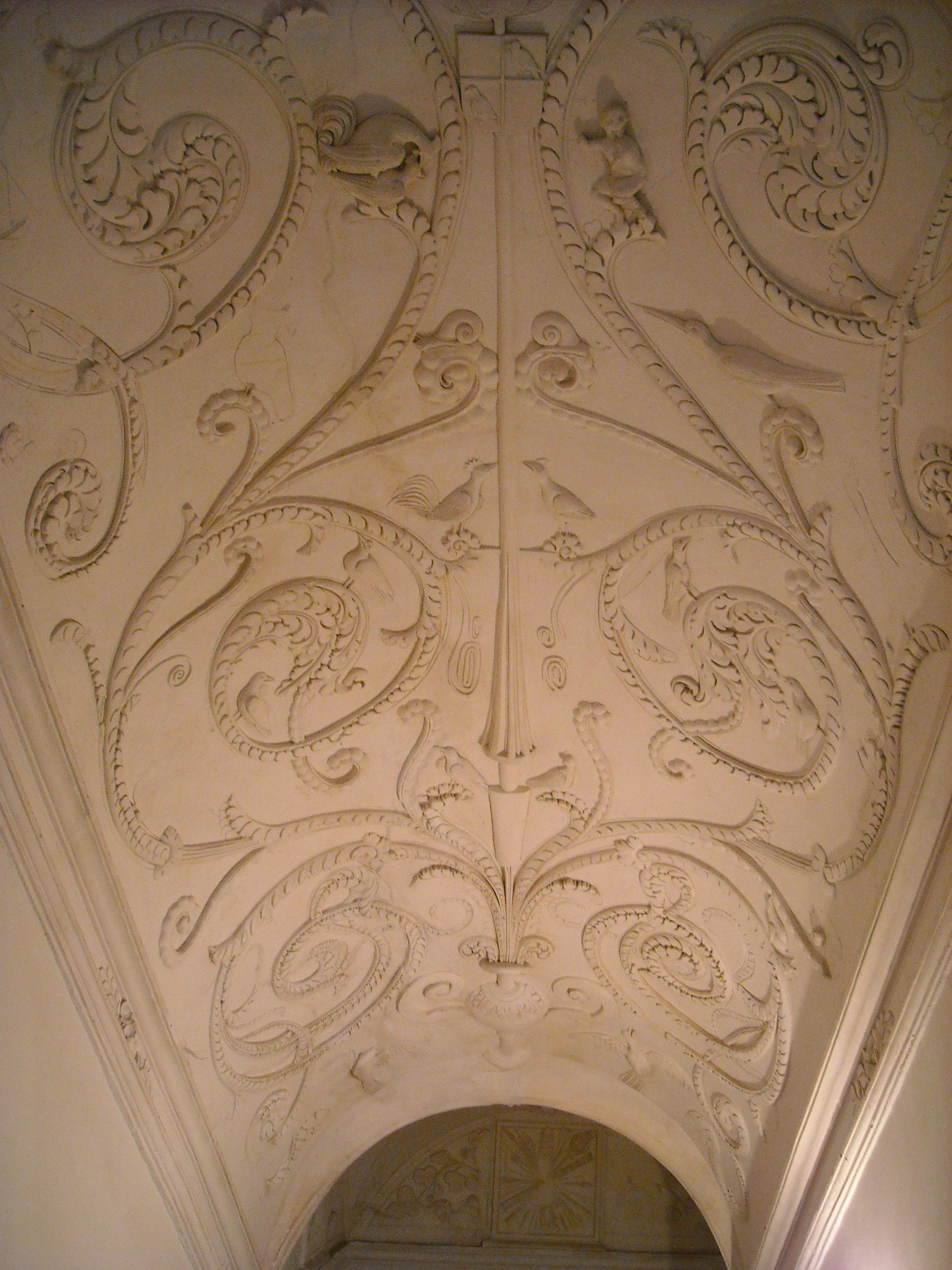 gypseries dans les escalier du château de Volonne